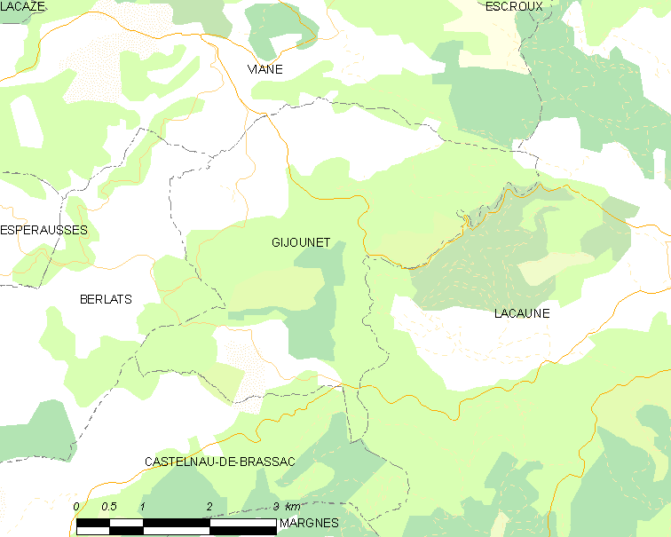 Map commune FR insee code 81103.png - Gijounet